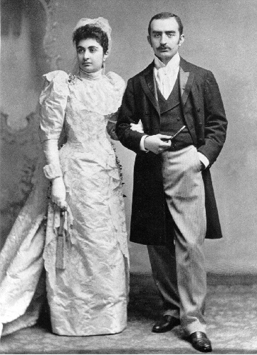 Calouste Gulbenkian with his wife Nvarte Essayan in London in 1890